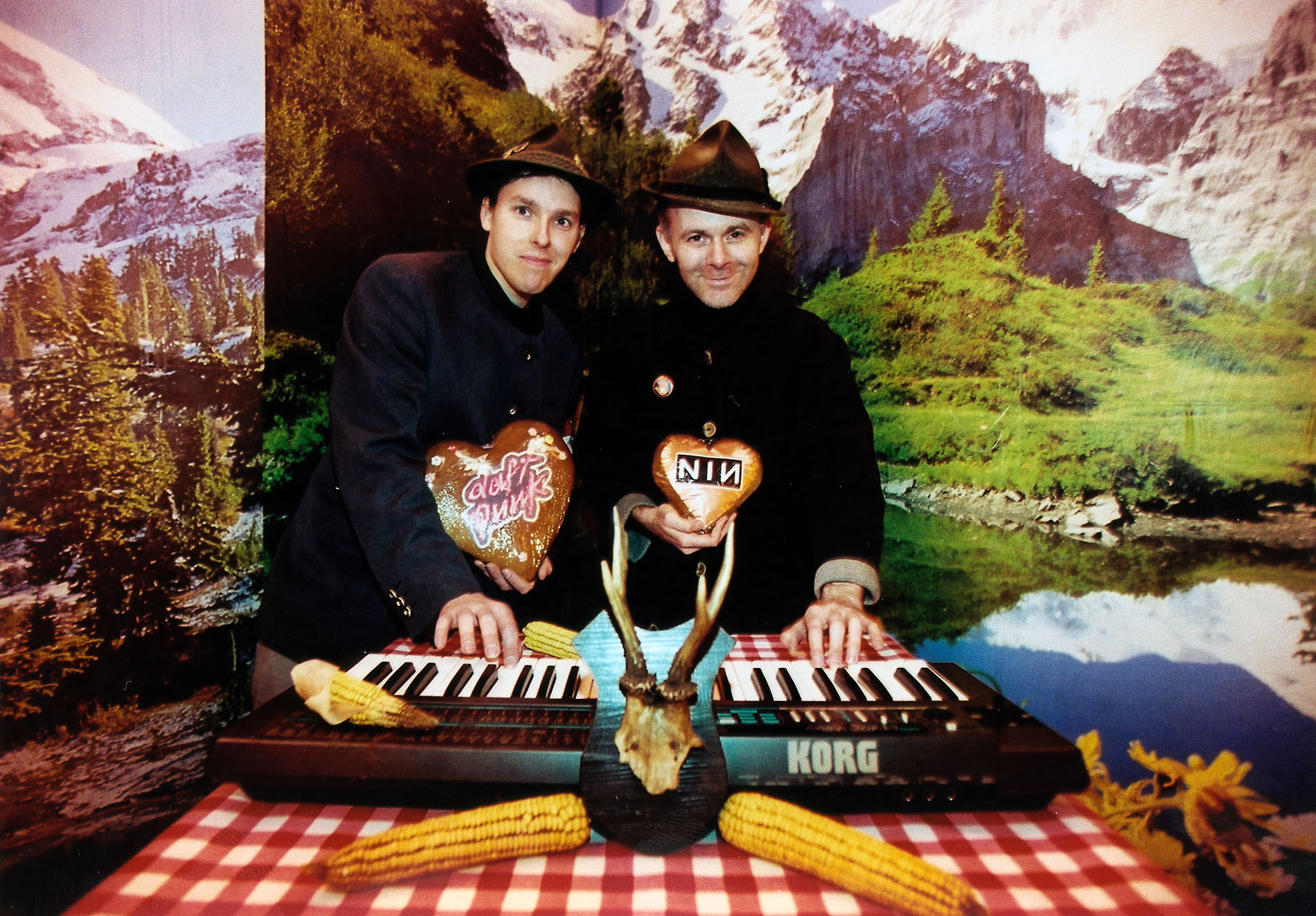 monochrom's Johannes Grenzfurthner and Franz Ablinger (at monochrom's "Pension MIDI", Klangturm St. Pölten, 2001)